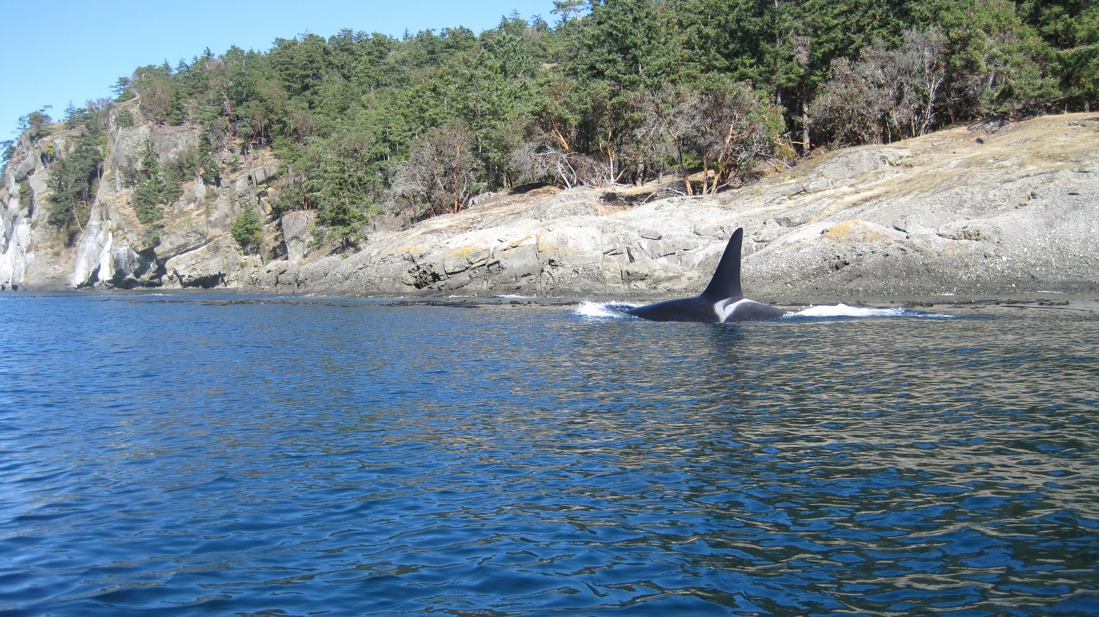 Male Orca whale, member of L pod, number 79 (Puget Sound), born 1989. ID confirmed by Center for Whale Research in Friday Harbor, Washington. Photo taken just south of Turn Point, northwest tip of Stuart Island.